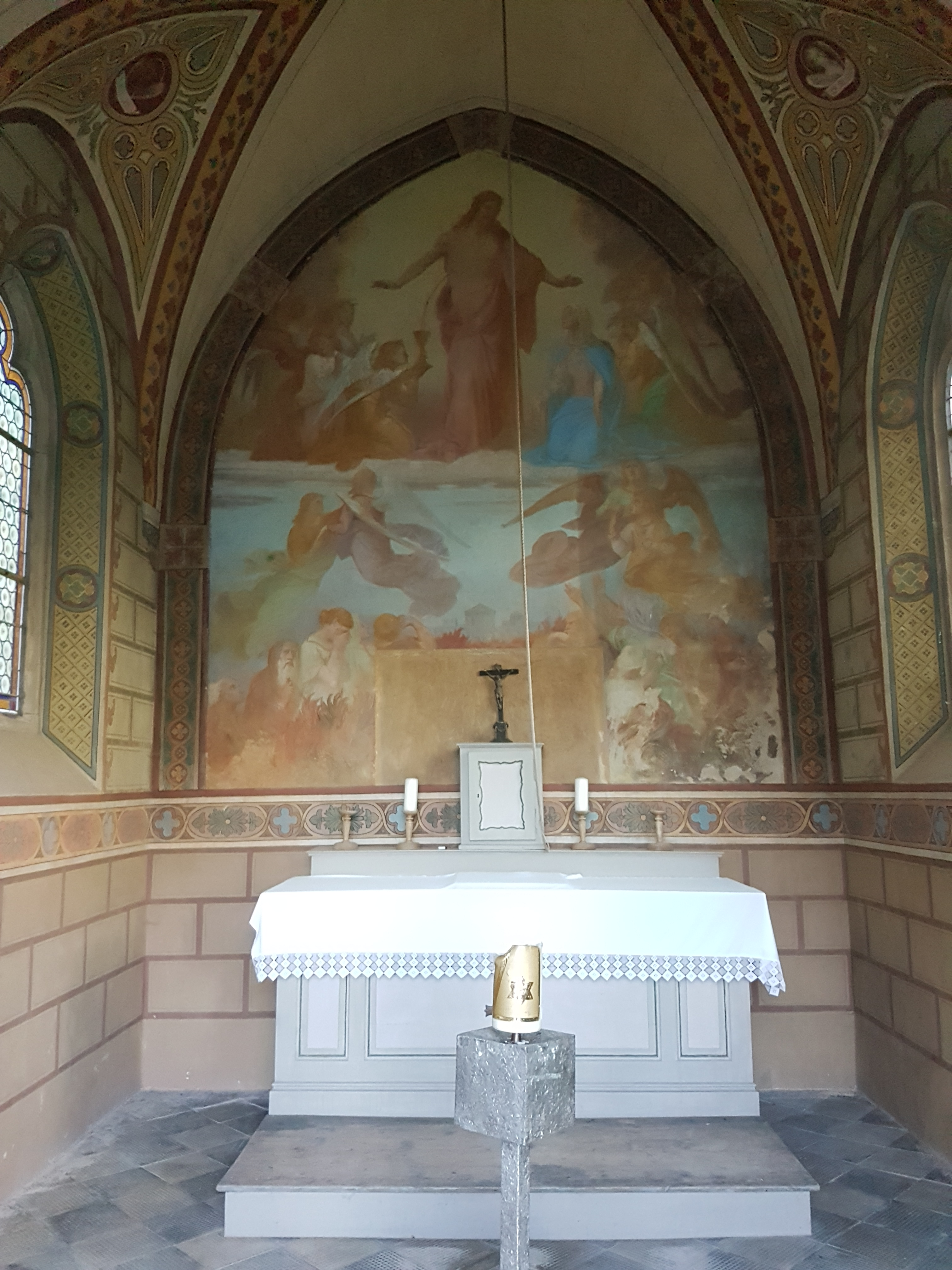 Cemetery and chapel Valduna in the municipality Rankweil in Vorarlberg, Austria.